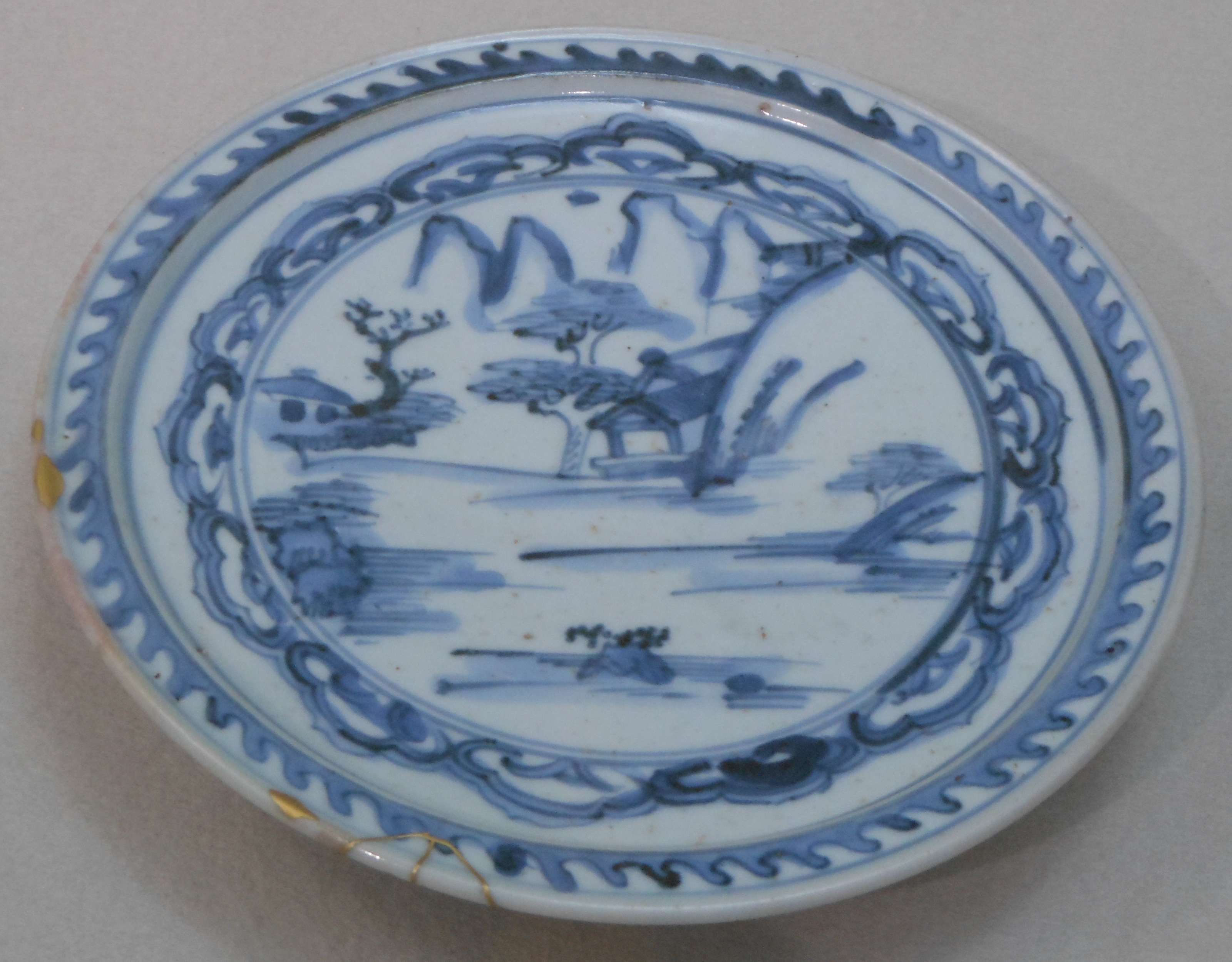 Name:Sometsuke-Rokakusansuimon-Sara (Dish with pavilion and landscape design, underglaze cobalt-blue.) Collection No.:0548-59 Era:1640-1650s Made in:pottery of Arita, Hizen Collected, displayed by:Kyushu Ceramic Museum